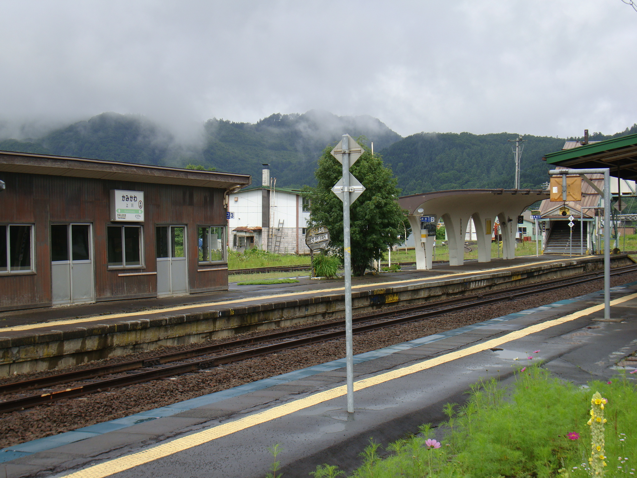 Kamikawa Station